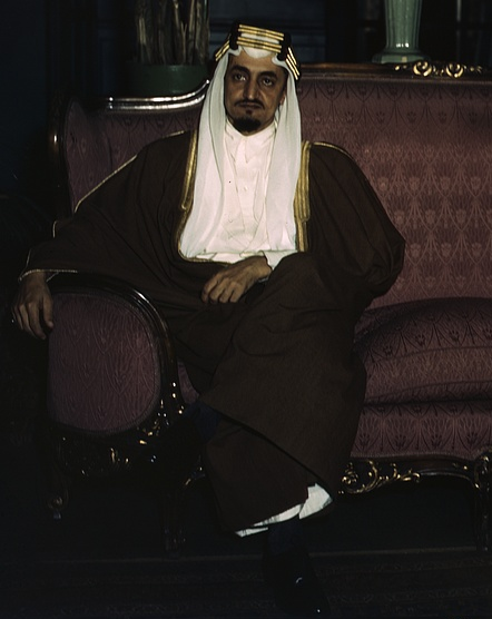 Title: Amir Khalid [right] and Amir Faisal, sons of King Ibn Saud of Saudi Arabia. Their Royal Highnesses recently concluded an extensive visit in the United States as guests of the government. They have made a special study of irrigation projects in the United States. The princes at their own farewell reception in the nation's capital